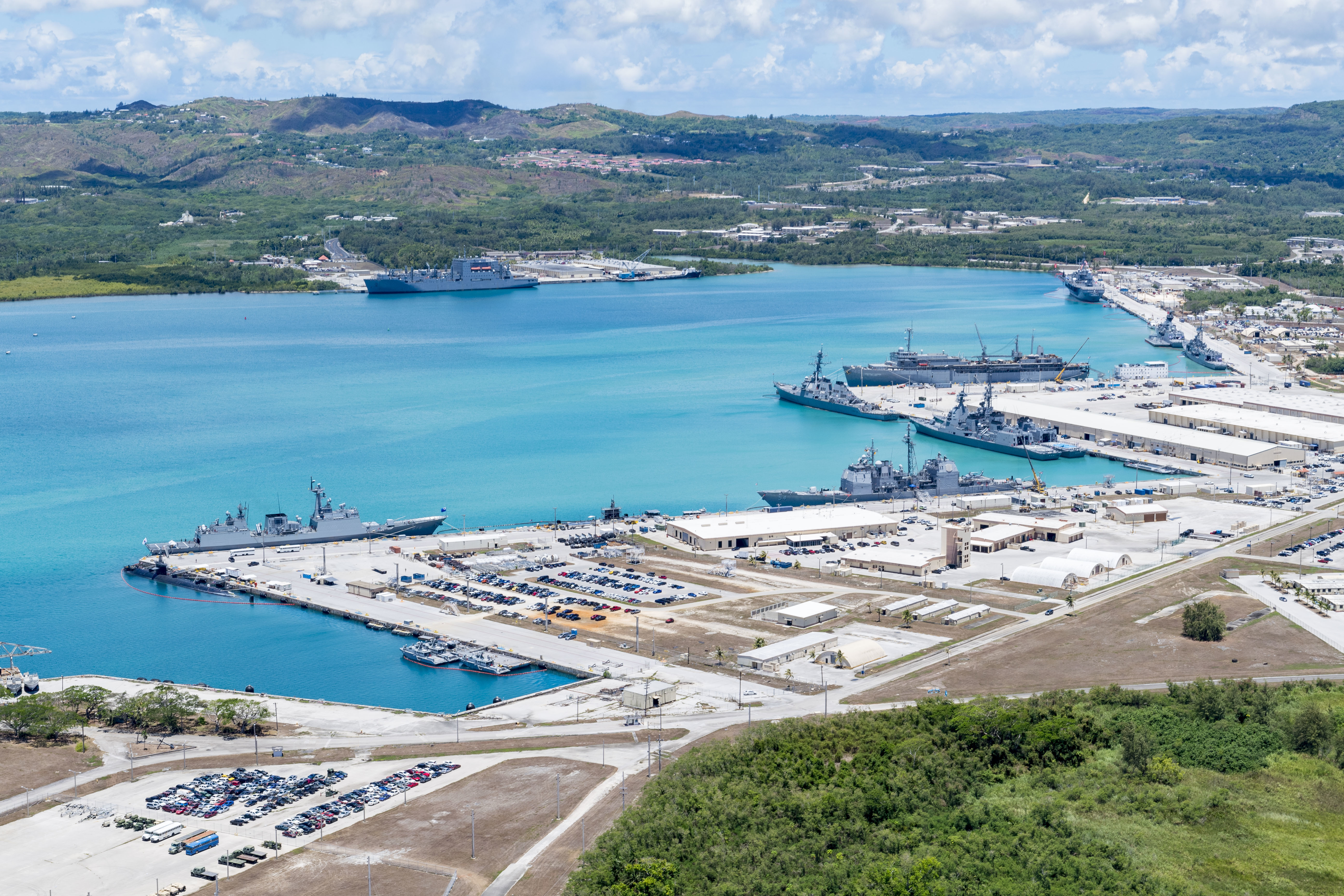 An aerial view of U.S. Naval Base Guam shows U.S. Navy, Royal Australian Navy, Japan Maritime Self-Defense Force and the Republic of Korea navy vessels moored in Apra Harbor, Guam, in support of Pacific Vanguard (PACVAN), 22 May 2019. PACVAN is the first of its kind quadrilateral exercise between Australia, Japan, Republic of Korea, and U.S. Naval forces. Focused on improving the capabilities of participating countries to respond together to crisis and contingencies in the region, PACVAN prepares the participating maritime forces to operate as an integrated, capable, and potent allied force ready to respond to a complex maritime environment in the Indo-Pacific region.